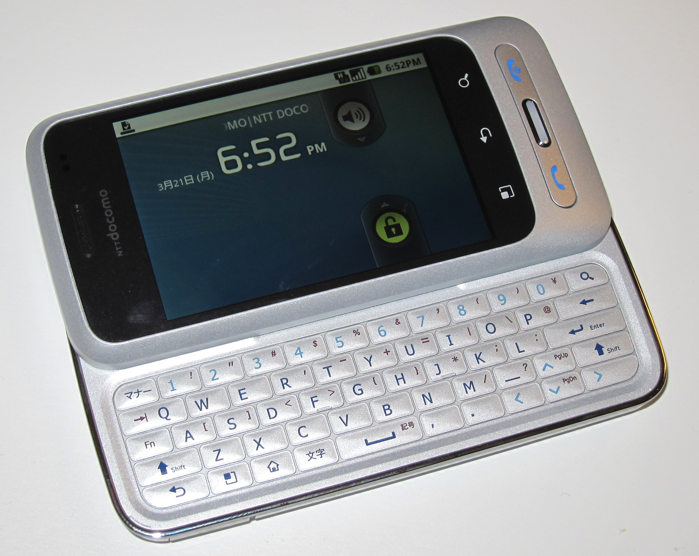 Docomo Smartphone Optimus chat L-04C